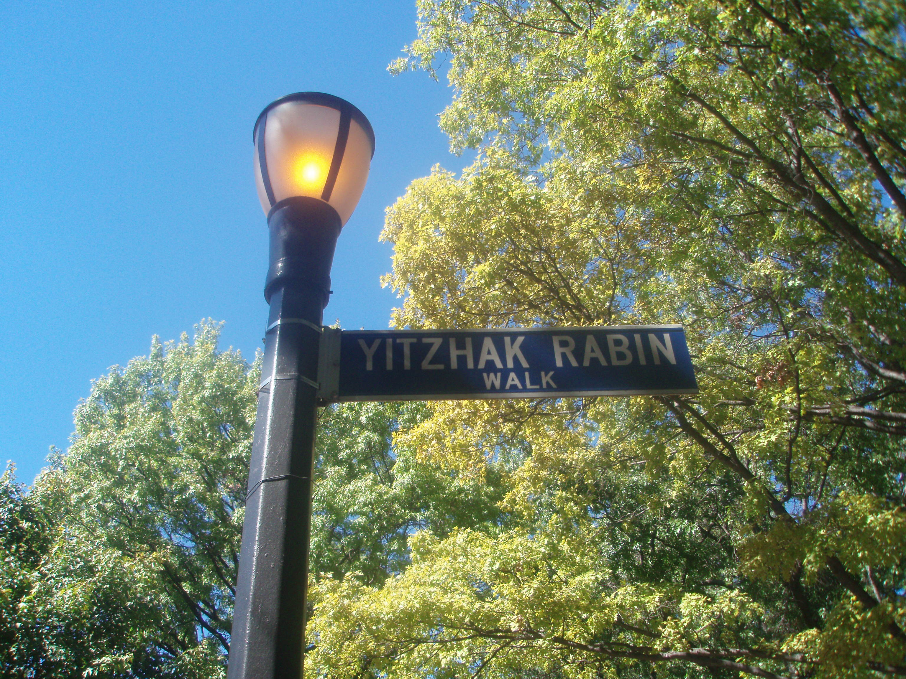 Yitzhak Rabin Walk in Flushing Meadows Corona Park, Queens, New York City